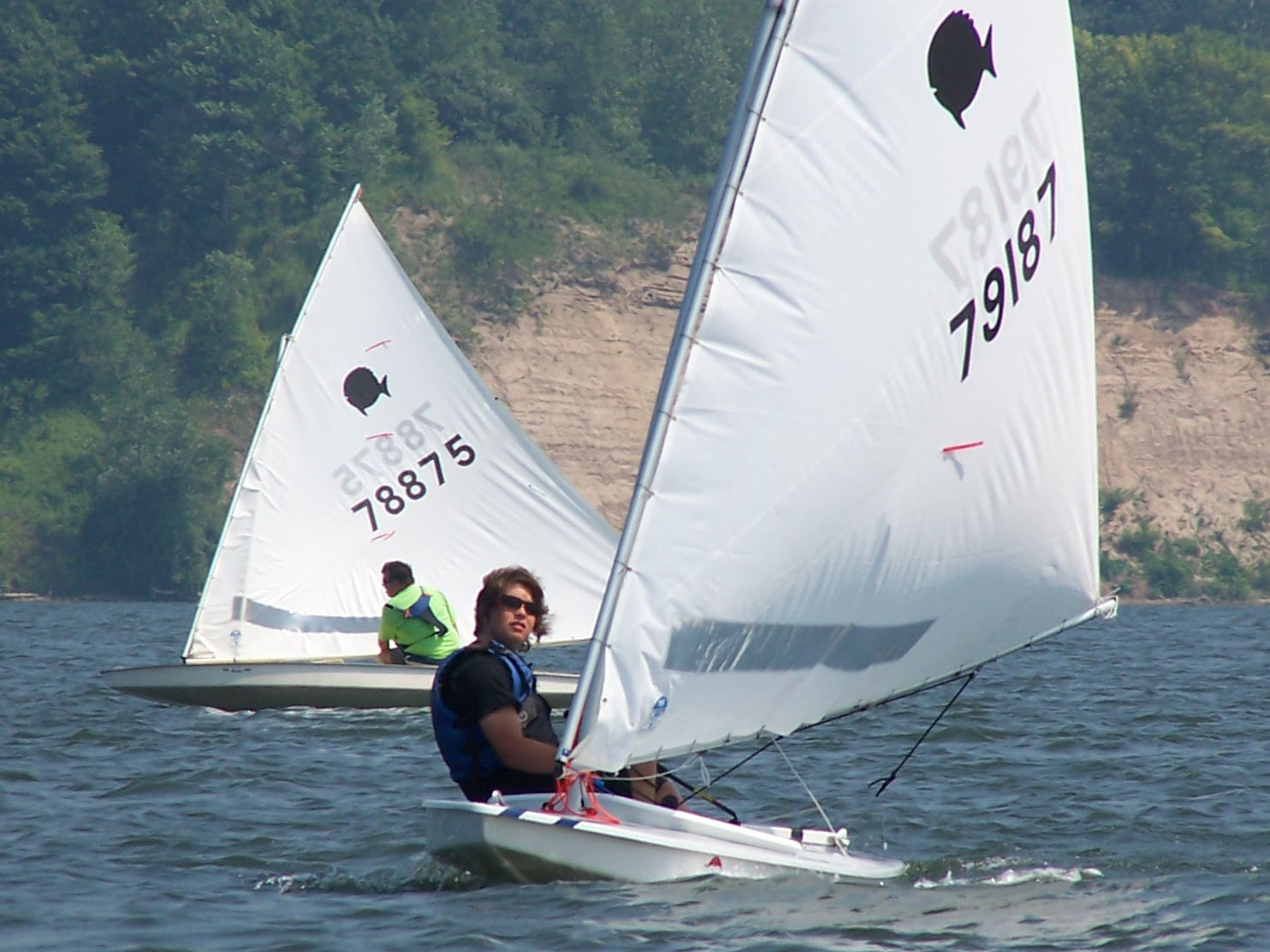 Closeup of two race-rigged Sunfish racing on Irondequoit Bay, NY.